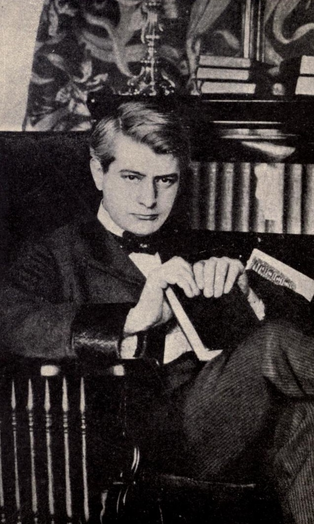 Portrait of novelist Frank Norris